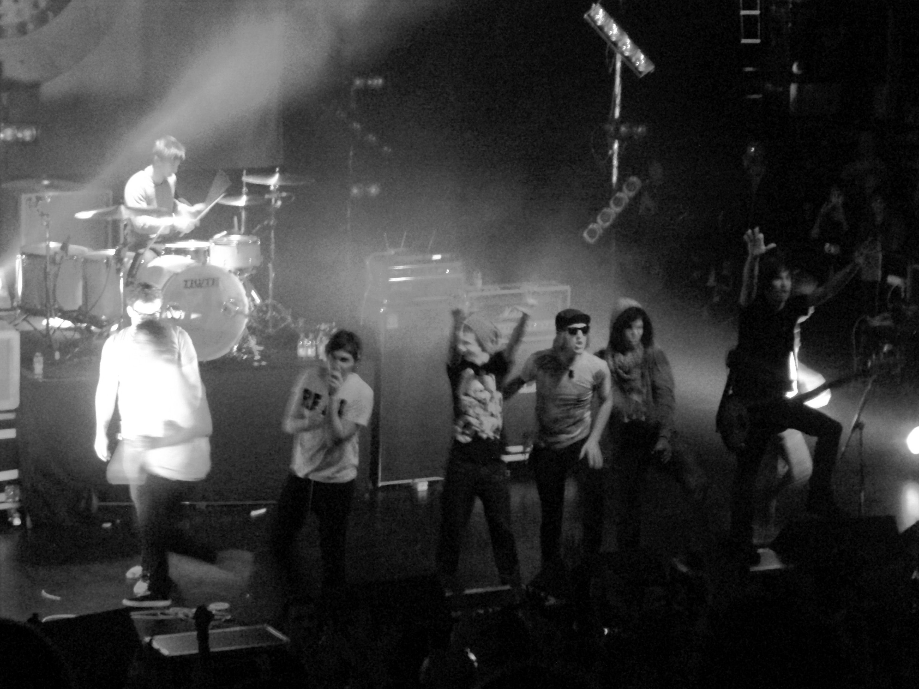 You Me At Six live at the Astoria.